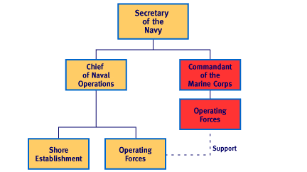 Simplified organizational chart of the United States Navy Chain of Command on the political level